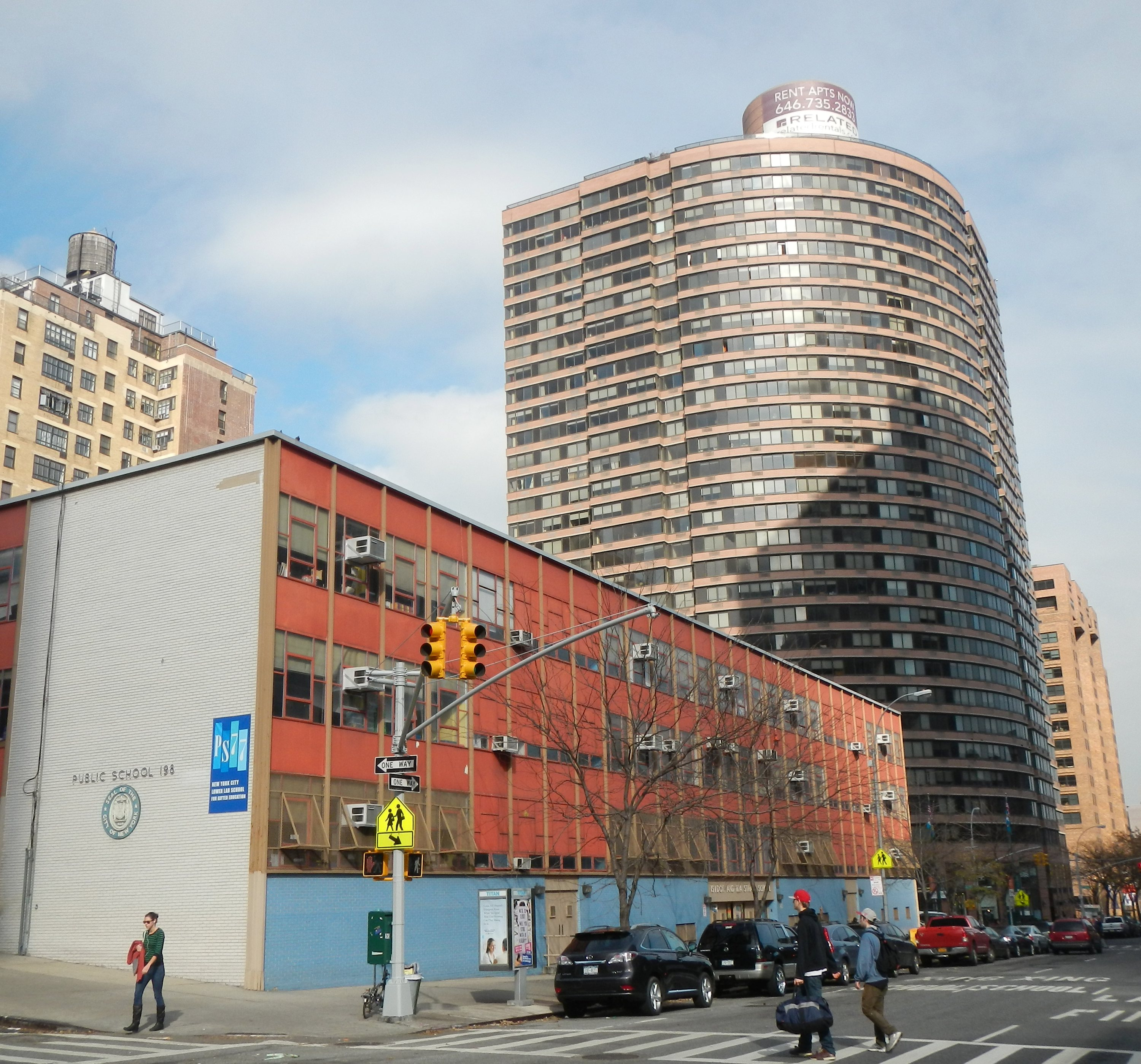 Looking north across 3d Avenue at Straus PS 198 on a mostly sunny midday.